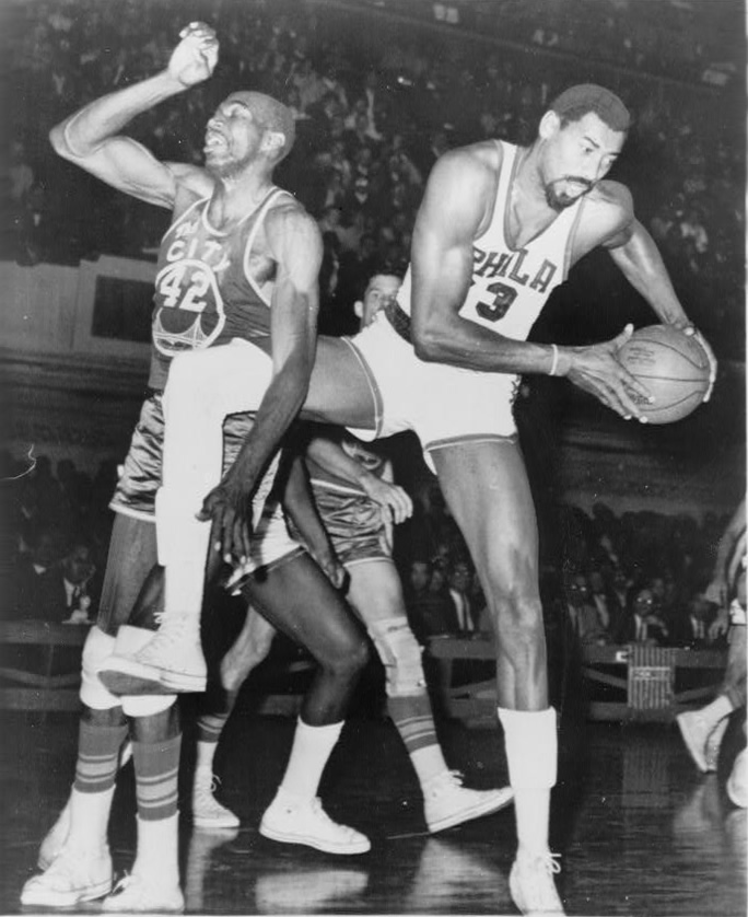 Wilt Chamberlain and Nate Thurmond during a basketball game